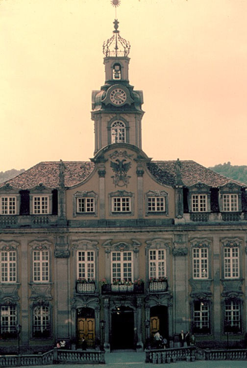 The Rathaus (city hall) in Schwäbisch Hall